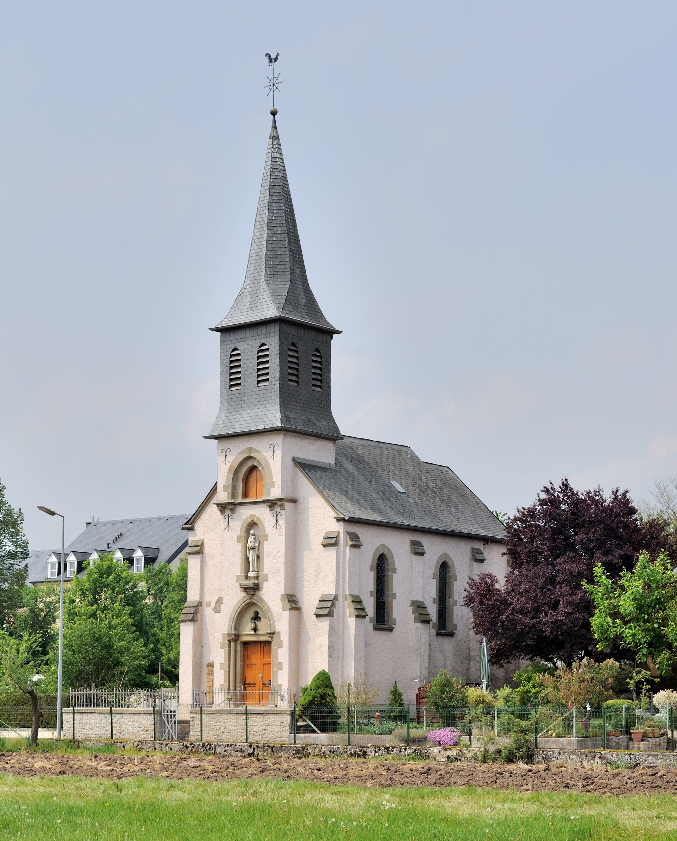 Church at Hagelsdorf, Luxembourg